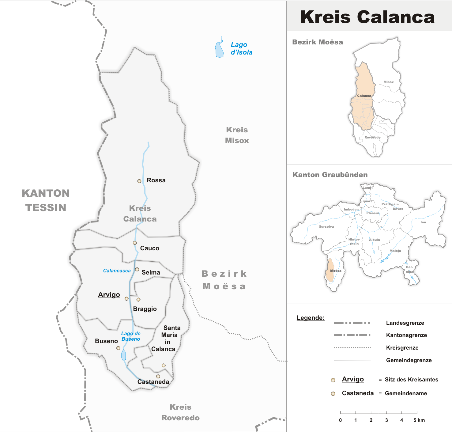 Municipalities in the circle of Calanca